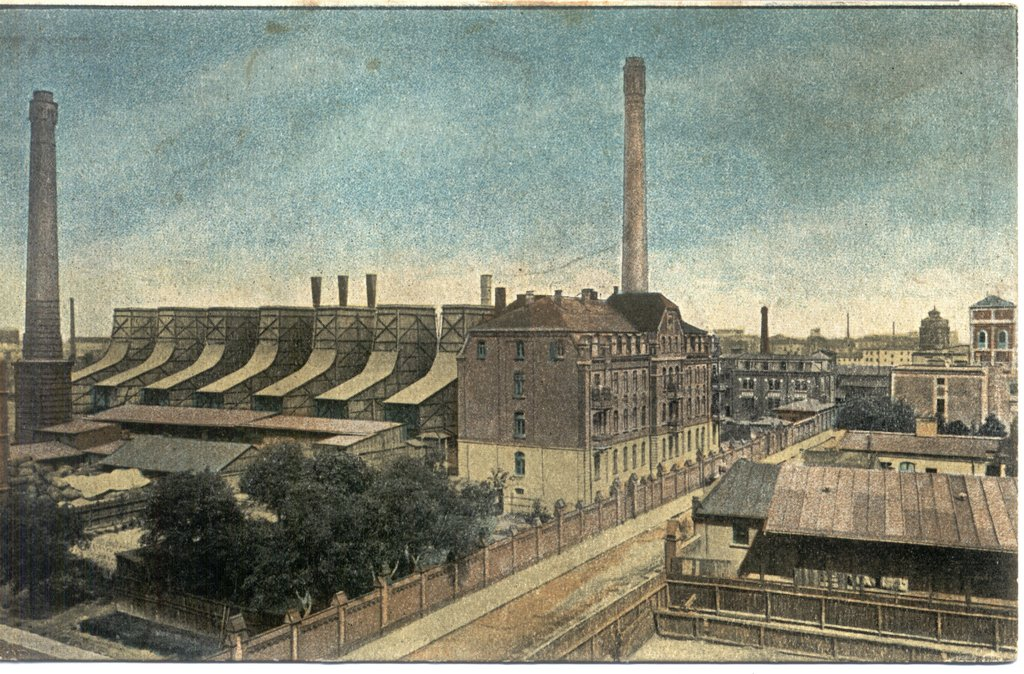 Old Cogeneration no 1 in Lodz city in Poland